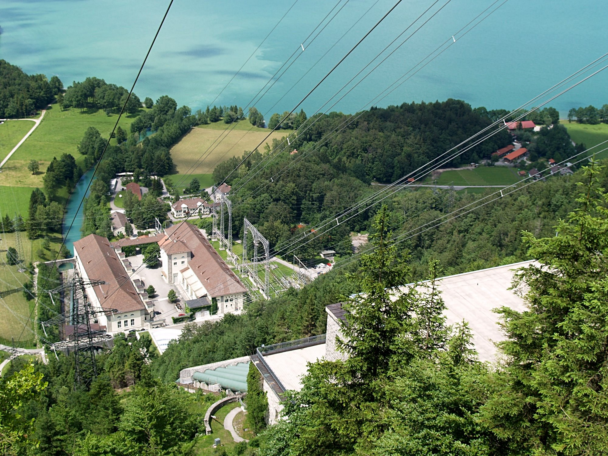 Kochel am See, Bavaria, Germany: The Walchenseekraftwerk is a famous hydroelectric power plant